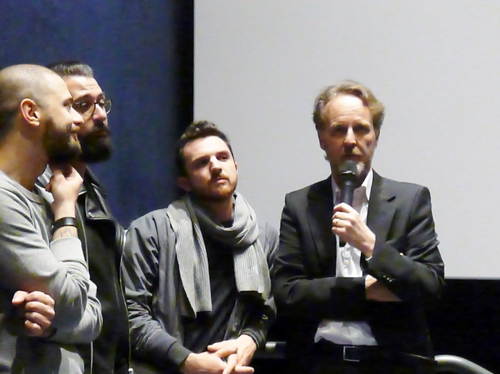 Movie director Francesco Bruni and Music Producers The Ceasars